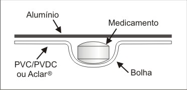 Components of blister assembly